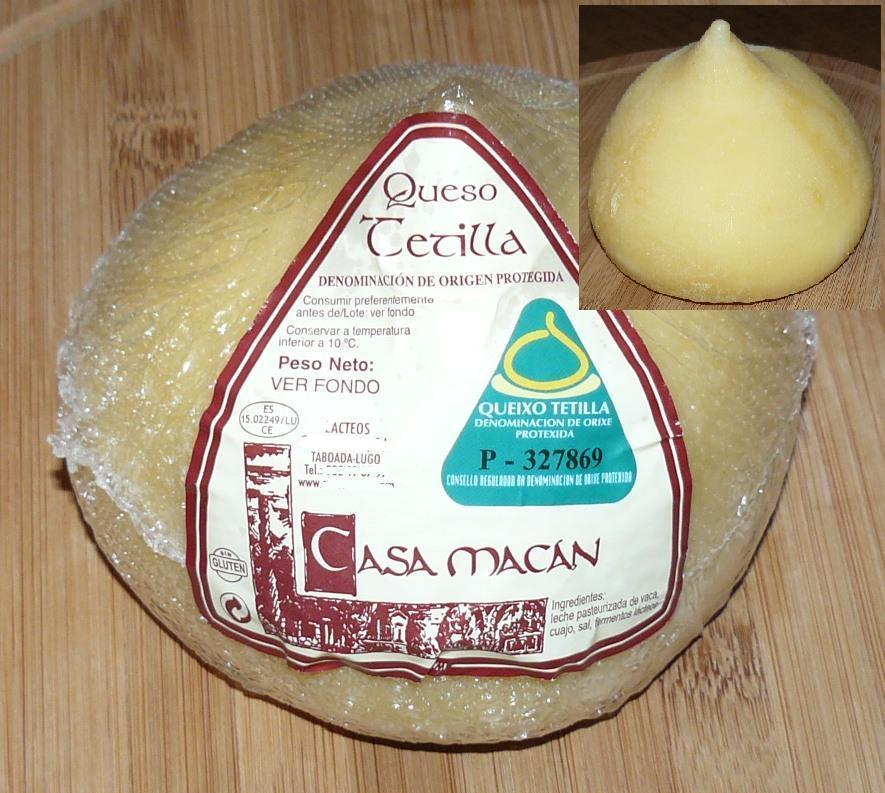 Tetilla Cheese.